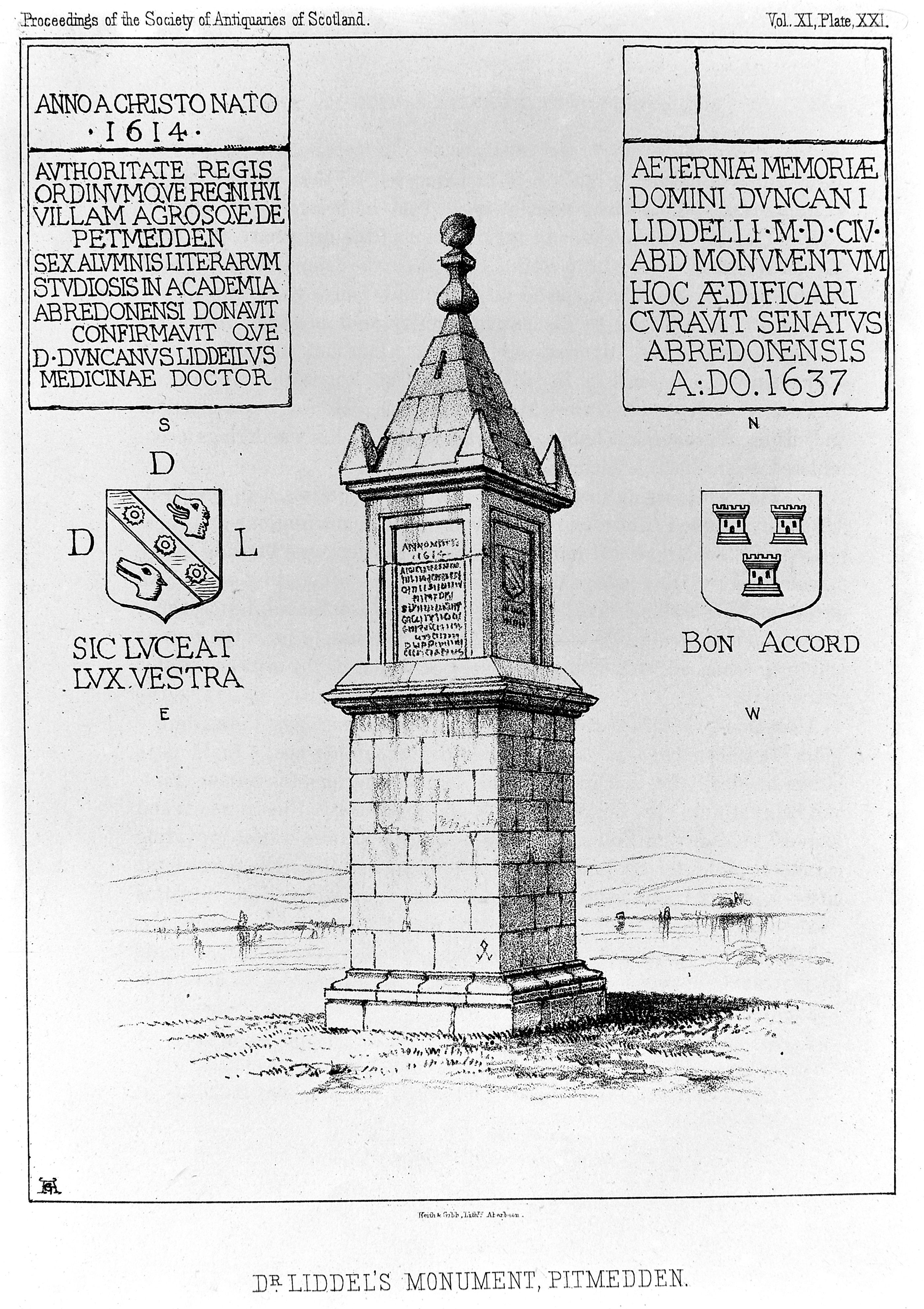 Monument for Duncan Liddel, Pitmeddon. General Collections Keywords: George Jamieson; Duncan Liddel